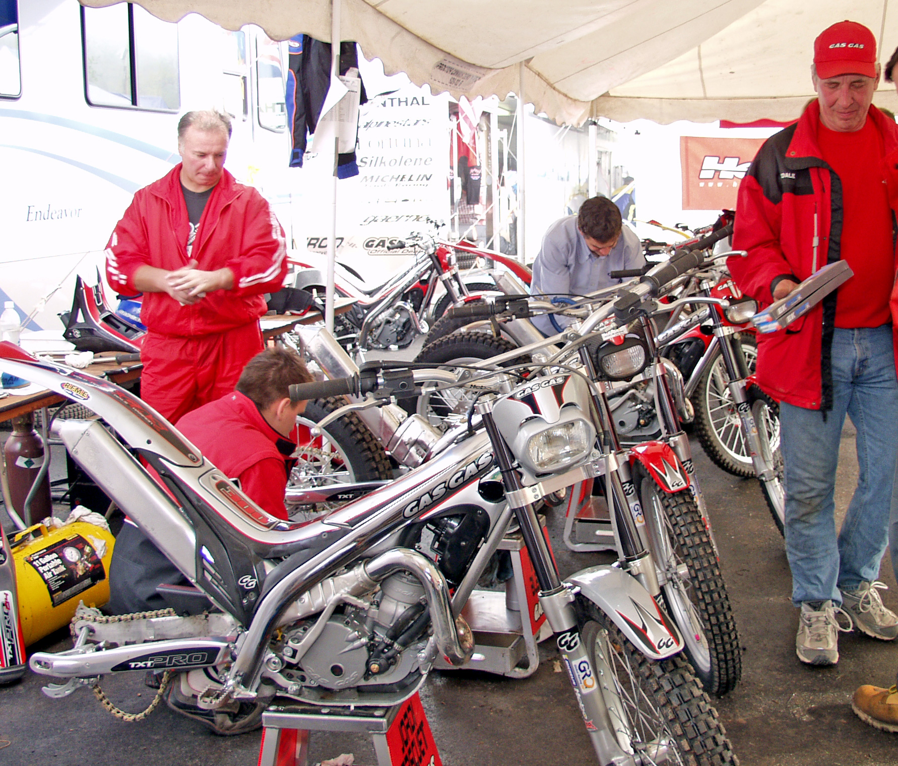 The Gas Gas paddock at the 2004 Duluth World Trials round. Gas Gas trials motorcycles pictured.